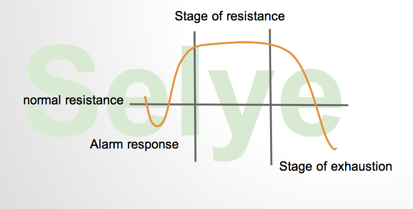 General Adaptation Syndrome by Selye